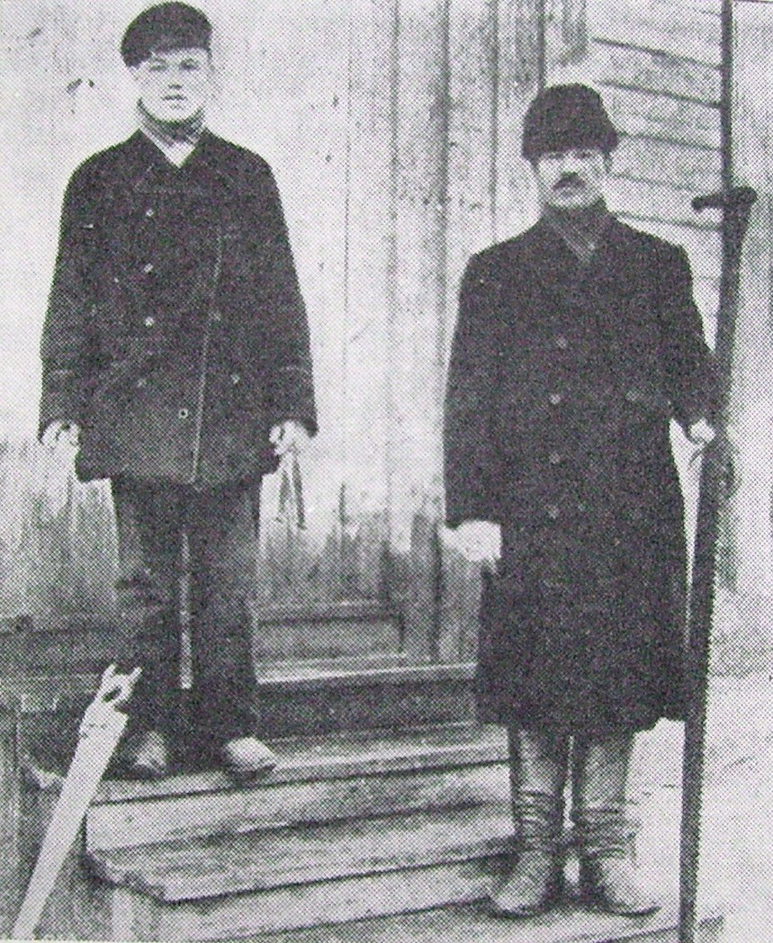 Picture of Russians (tinkers) in Gräsmark in Sweden